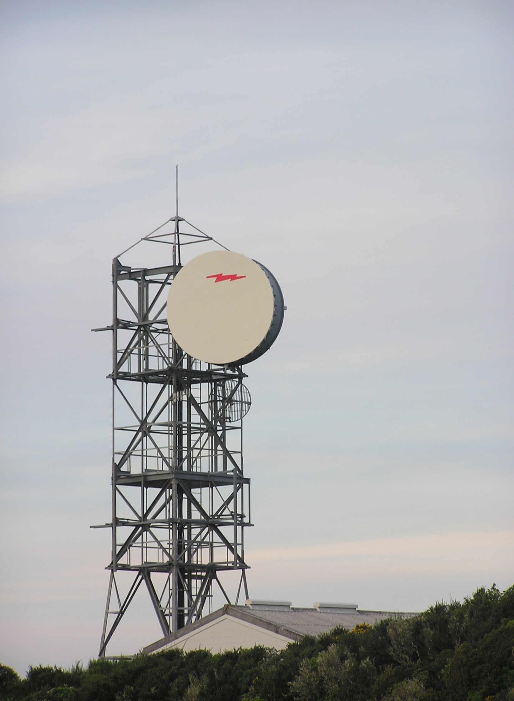 Microwave telecommunications tower, at dusk - Wrights Hill, Wellington New Zealand.